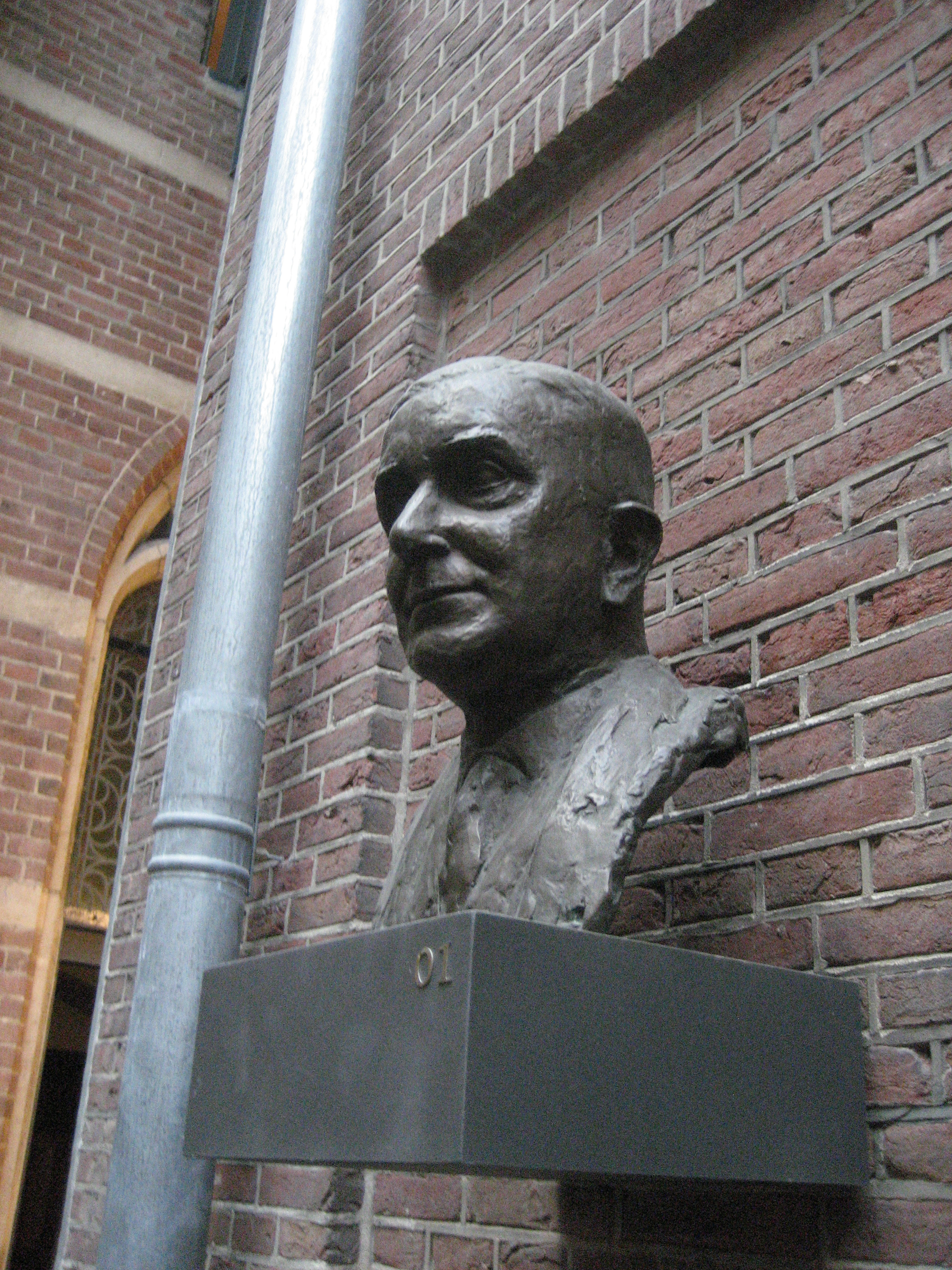 Rudolph Pabus Cleveringa (1894-1980), professor law Leiden University (The Netherlands). Buste by E. Siepman van den Berg (1981). Academy Building Leiden